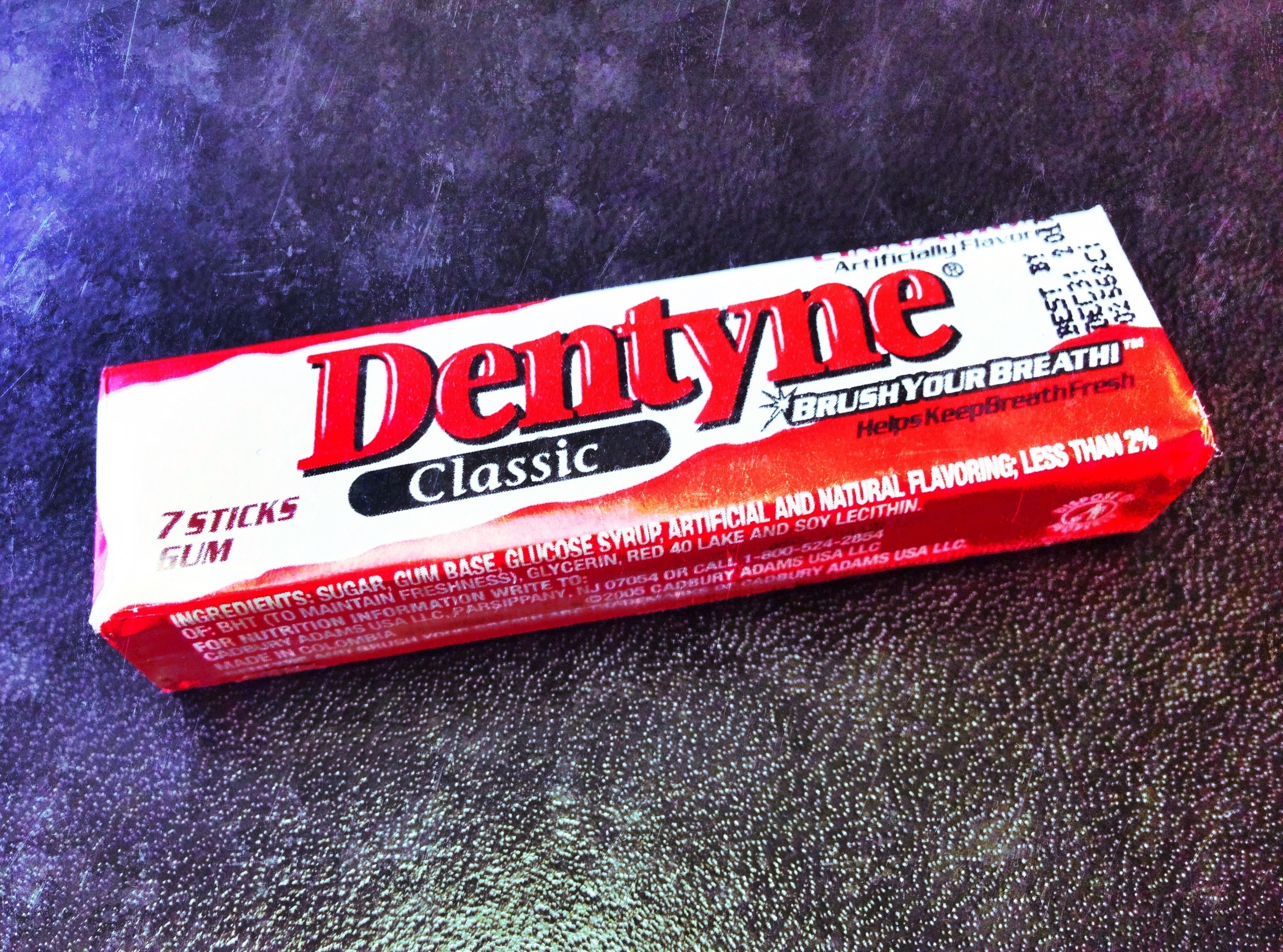 Dentyne - Mar 2013